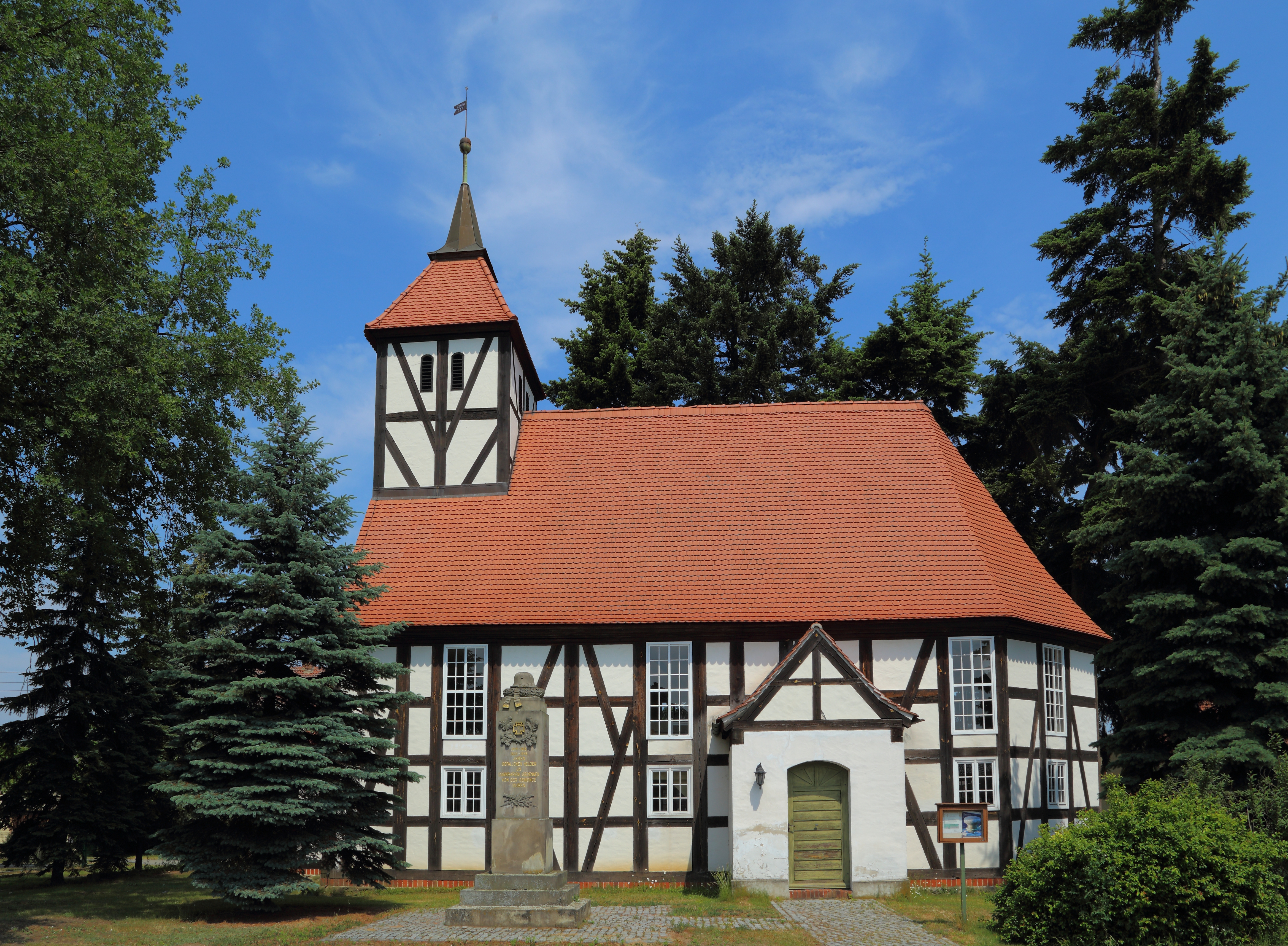 Lutheran Village Church (Dorfkirche) in Duben, a district of Luckau, Landkreis Dahme-Spreewald, Brandenburg, Germany. It serves also as a road church (Autobahnkirche).